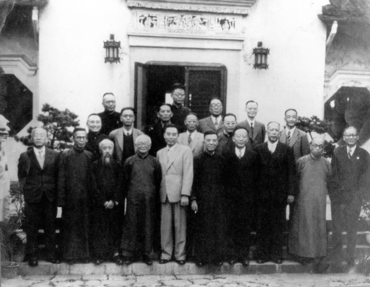 Chou and KMT in 1946